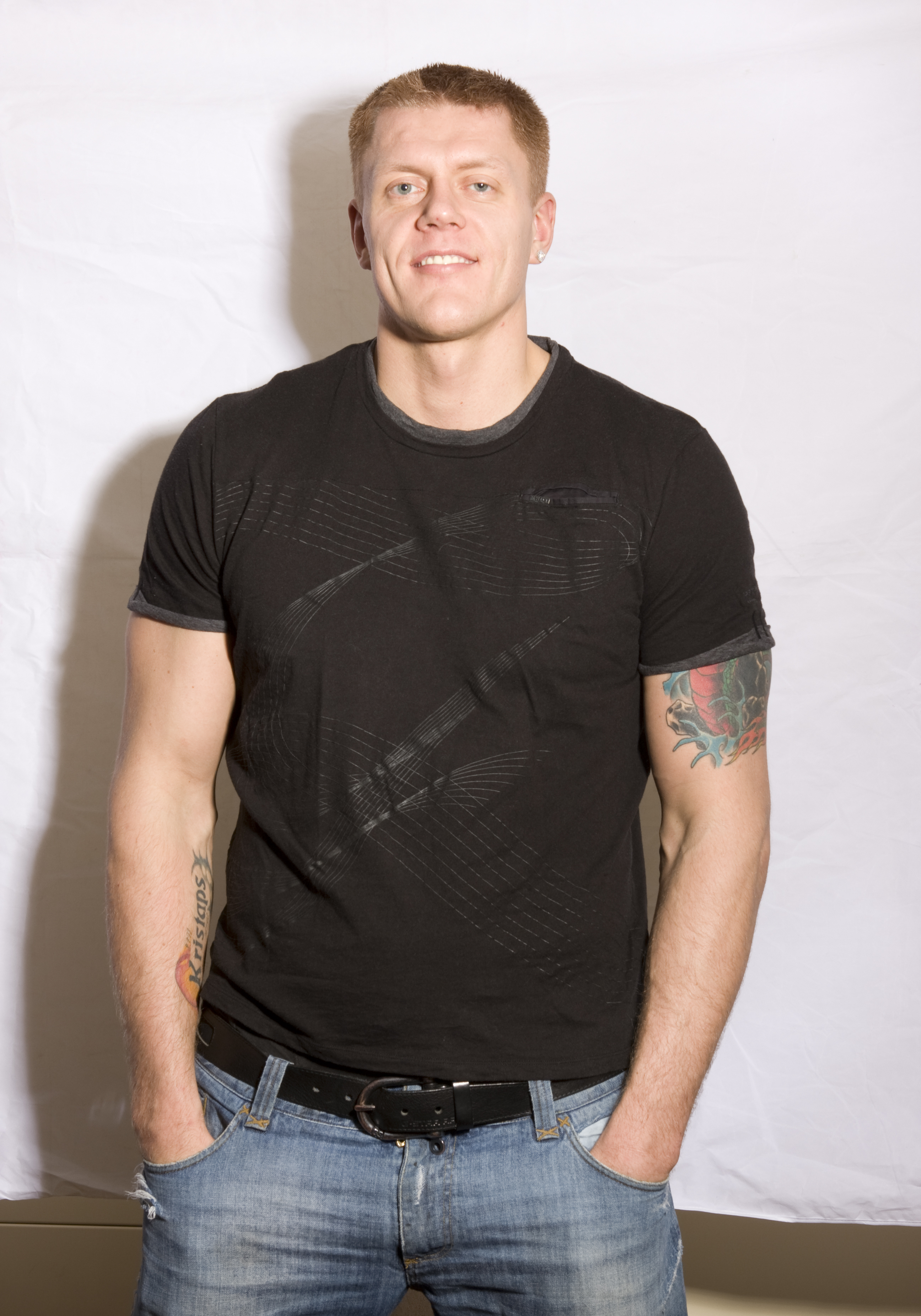 Kaspars Kambala